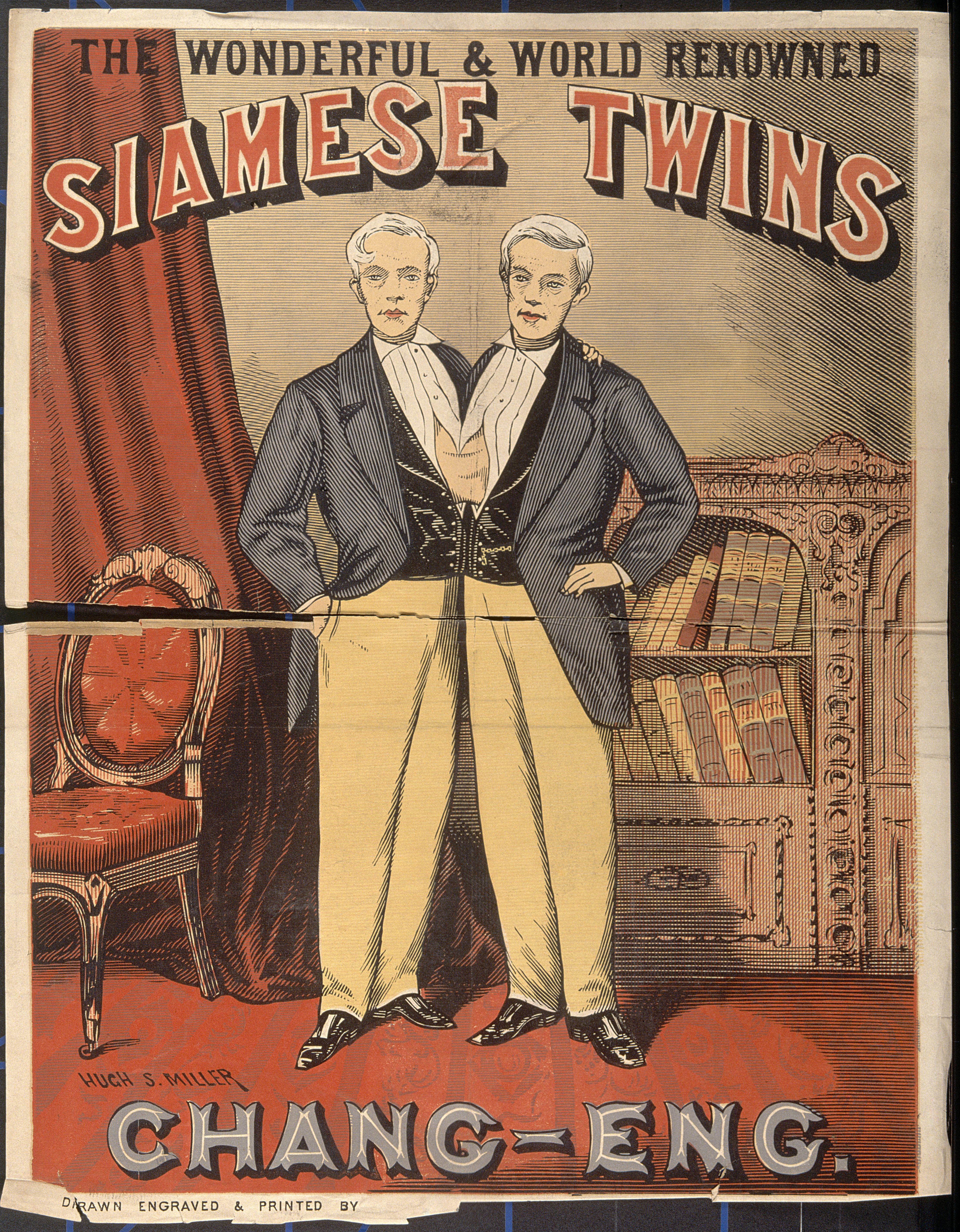 Chang and Eng, the Siamese twins, in evening dress. Colour wood engraving by H.S. Miller. Iconographic Collections Keywords: bunker, chang and eng 1811-74; Chang and Eng Bunker; SIAMESE; Hugh S. Miller; Twins; ic